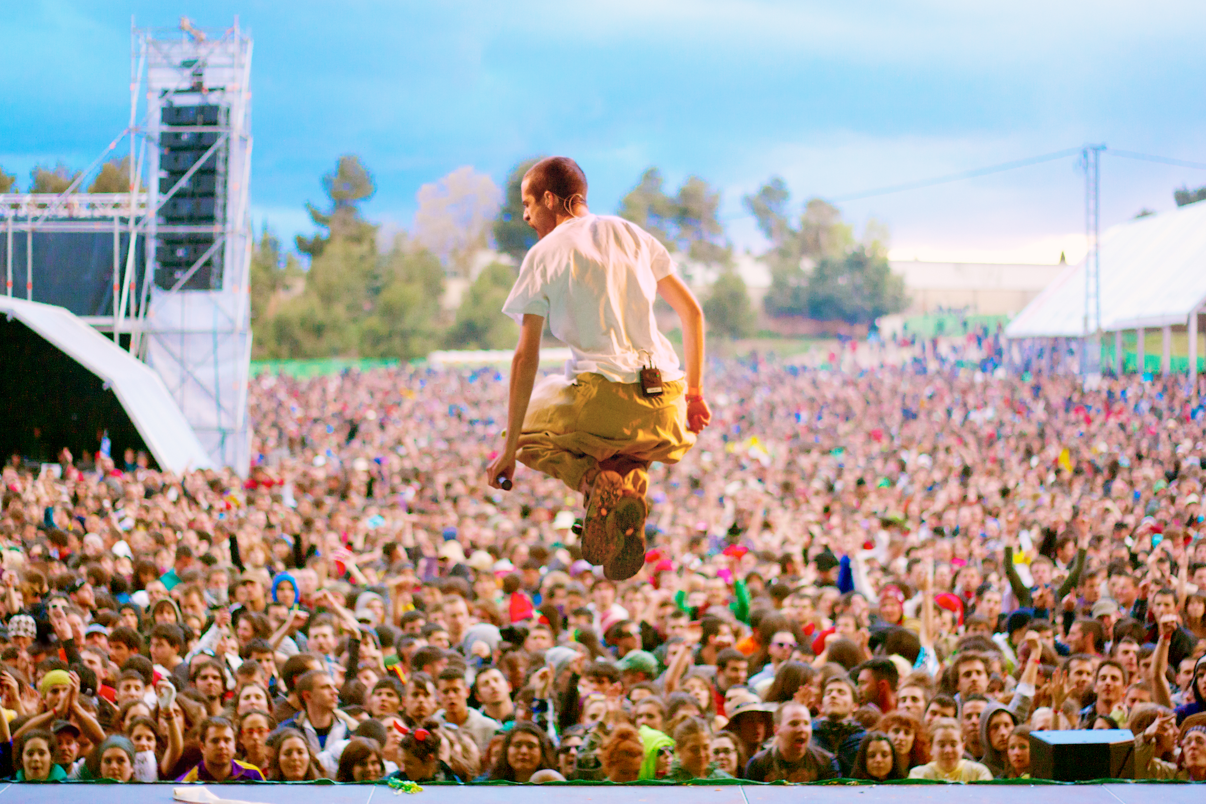 The lead singer of Bongo Botrako, Uri Giné, at Viña Rock Festival in Villarrobledo, Spain on April 30, 2012.